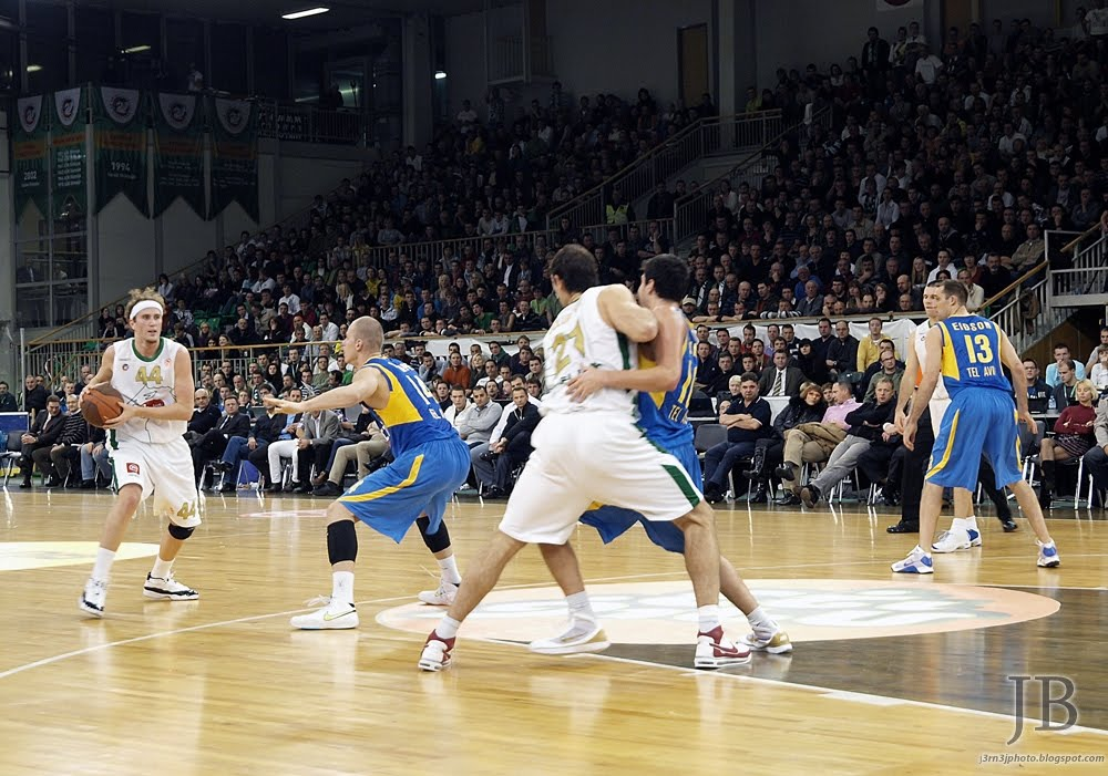 KK Union Olimpija vs Maccabi Tel Aviv in Hala Tivoli, Euroleague 2009/10